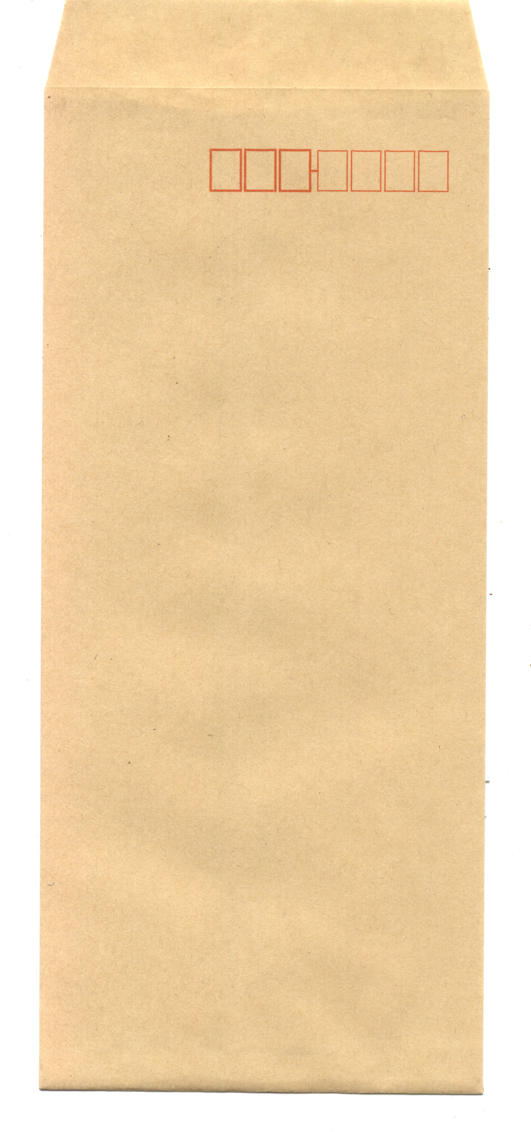 An envelope for a Japanese postal code seven-digit-ization